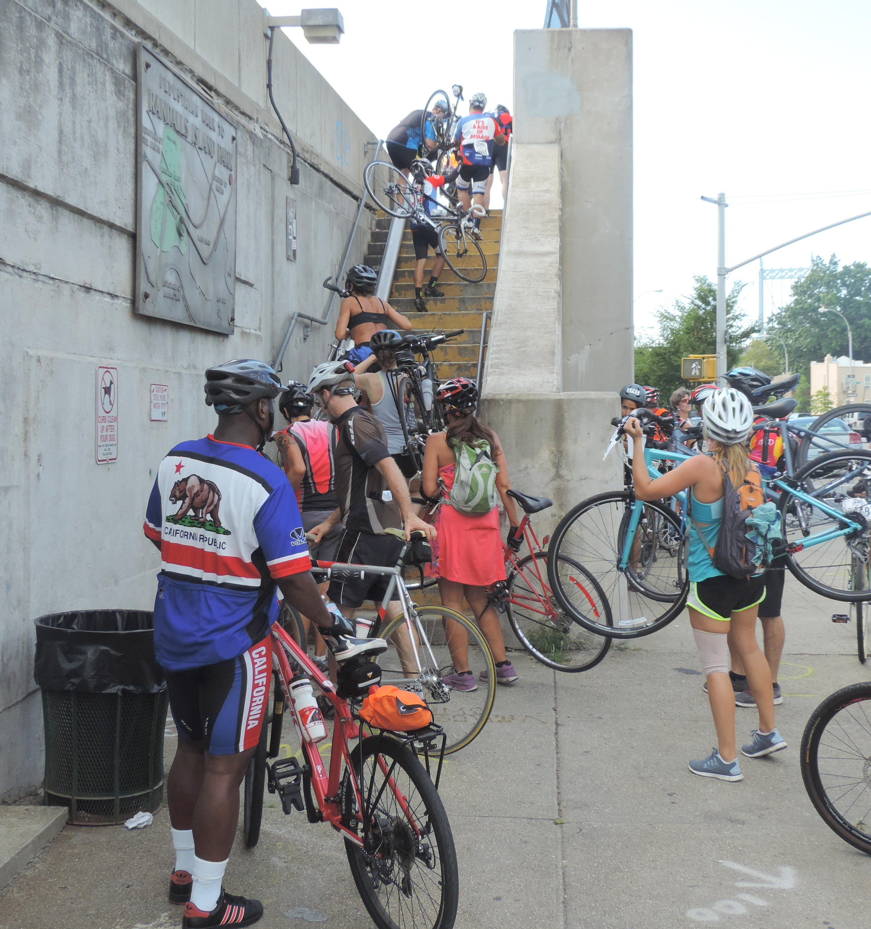 Looking west at bikers climbing on a partly cloudy afternoon.